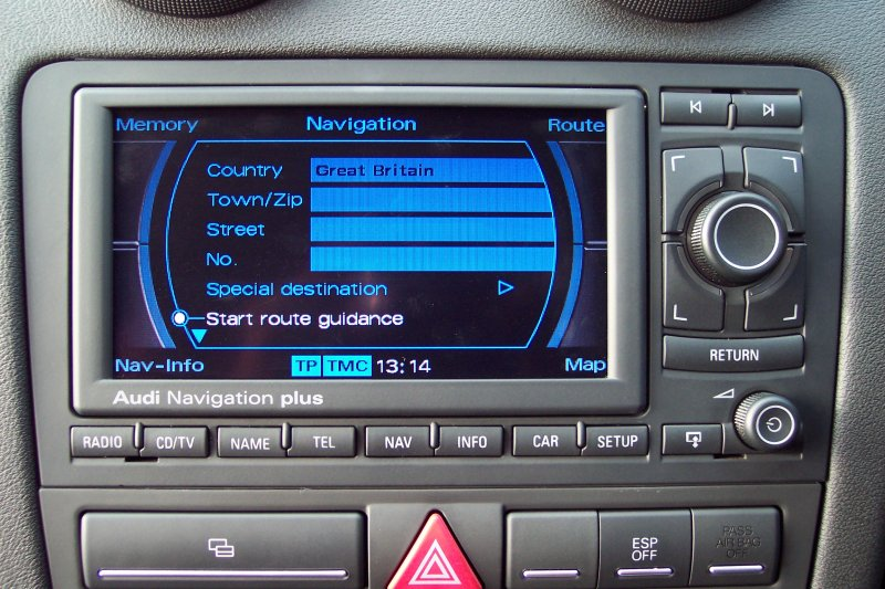 Picture of the Audi Navigation Plus (RNS-E) satellite navigation unit in a 2004 A3 Sportback.